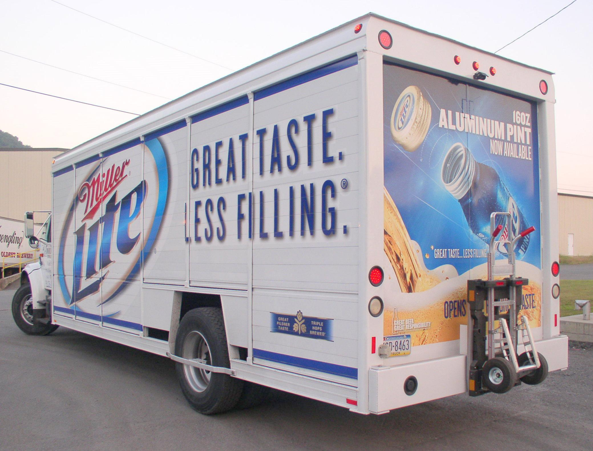 Durdach Bros. MillerCoors Distributing Miller Lite side-loader beverage truck with HTS-30D Hand Truck Sentry System. B&P Liberator aluminum commercial hand truck locked safe and secure aboard HTS-30D Ultra-Rack unit.